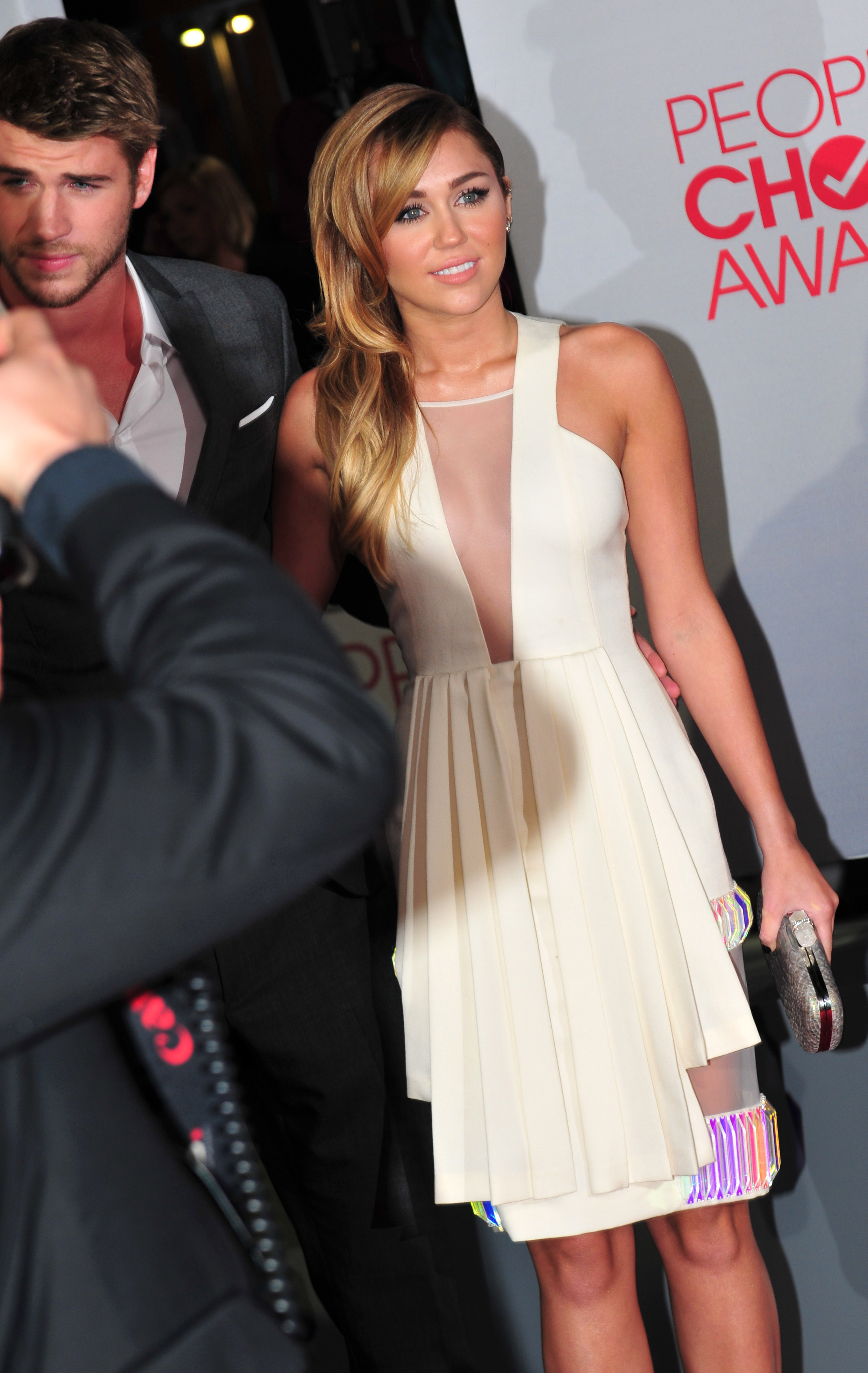 Miley Cyrus and Liam Hemsworth on the red carpet at the 38th People's Choice Awards on January 11, 2012, at the Nokia Theatre in Los Angeles, California. (JJ Duncan/ )